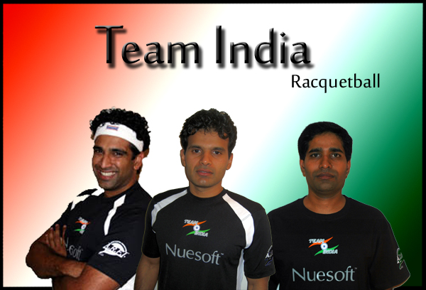 Indian Racquetball Team 2010 that played at the 2010 Racquetball World Championships in Seoul, Korea L-R Raaj Mohan, Sathwik Rai, Srikaran Kandadai